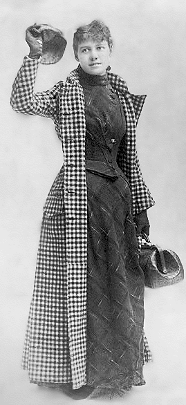 Nellie Bly (Elizabeth Jane Cochran), late 1880s